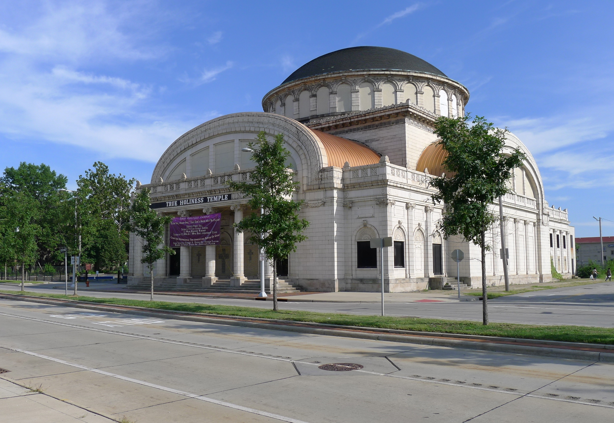 Originally Second Church of Christ Scientist. Architect: Frederick W. Striebinger (1916).